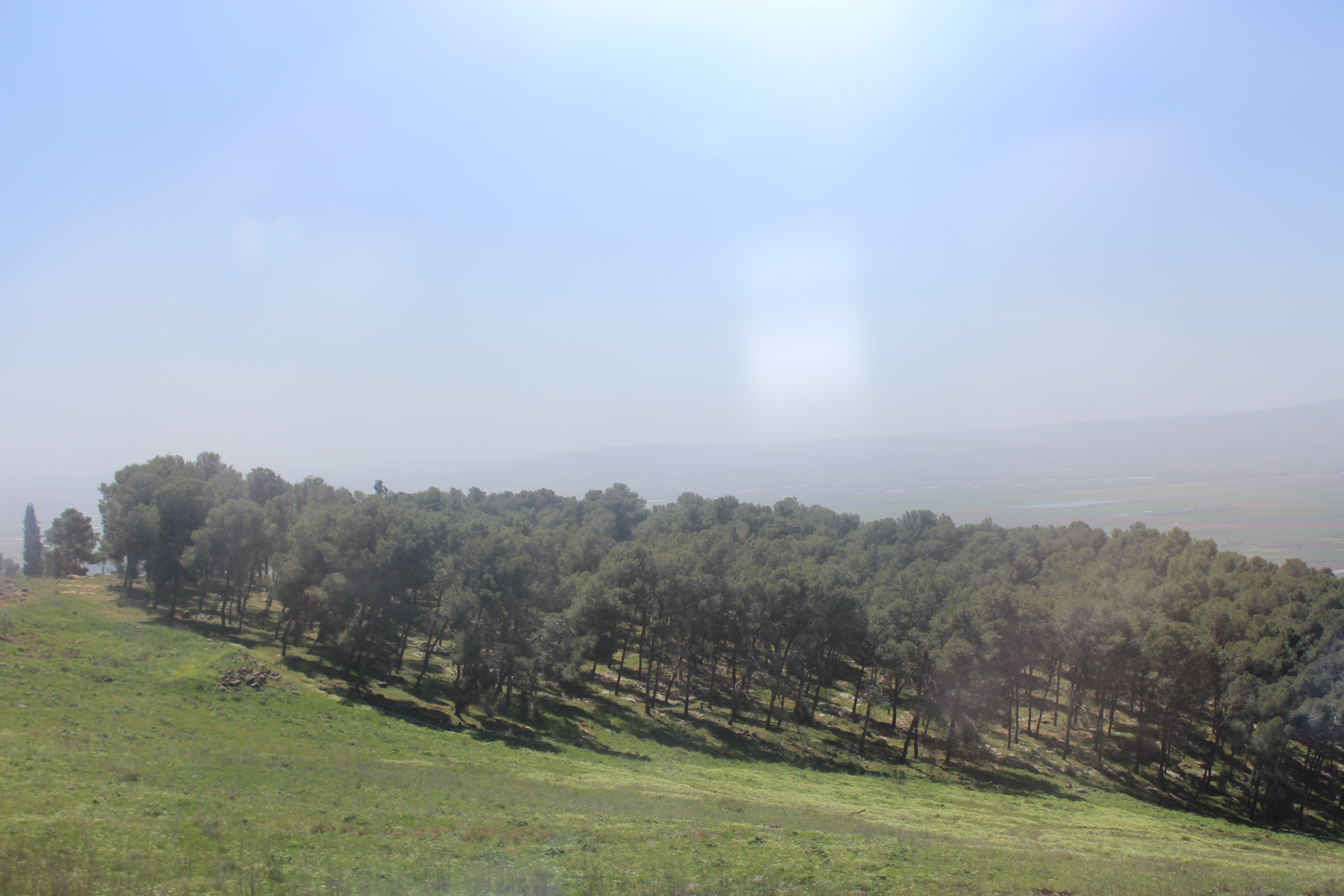 Givat HaMore, near Afula, Israel This image was taken as part of the Elef Millim project trip to Afula Ilit, in the town of Afula in the Jezreel Valley, which was held on Friday, 29th March 2013. To view all images uploaded as part of the Elef Millim Project